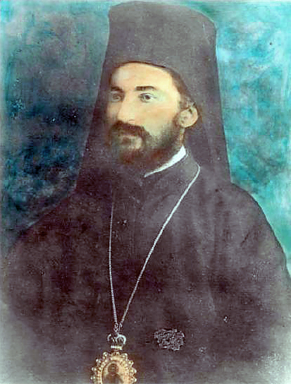 Archbishop of Albania, Kristofor Kisi